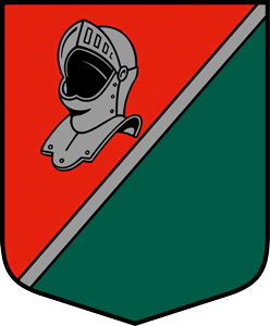 Coat of arms of Ērģeme parish, Latvia.